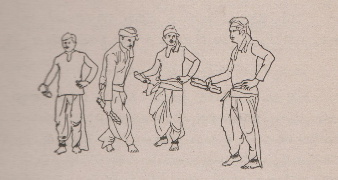 Chekka Bhajana or "Wooden Plank Bhajan" is a form of folk dance from Andhra Pradesh.